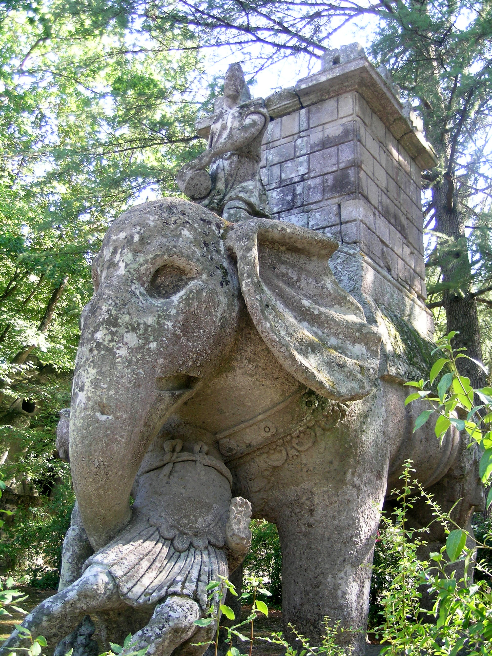 the elephant in the park of monsters, in Bomarzo (Italy)